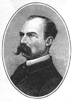 John Calhoun Sheppard (1850–1931), Governor of South Carolina.